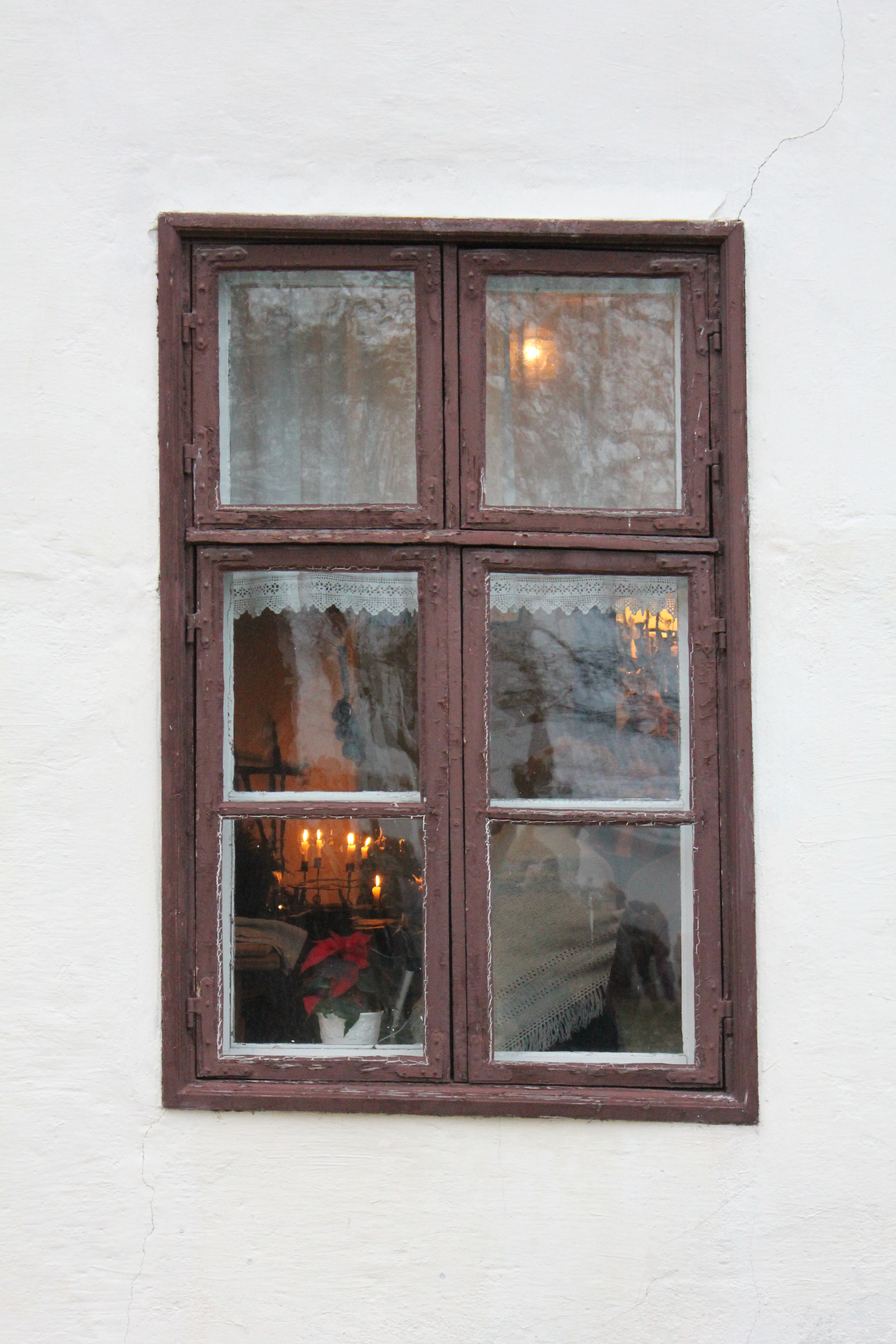 Old window, Norway. Taken before Christmas.